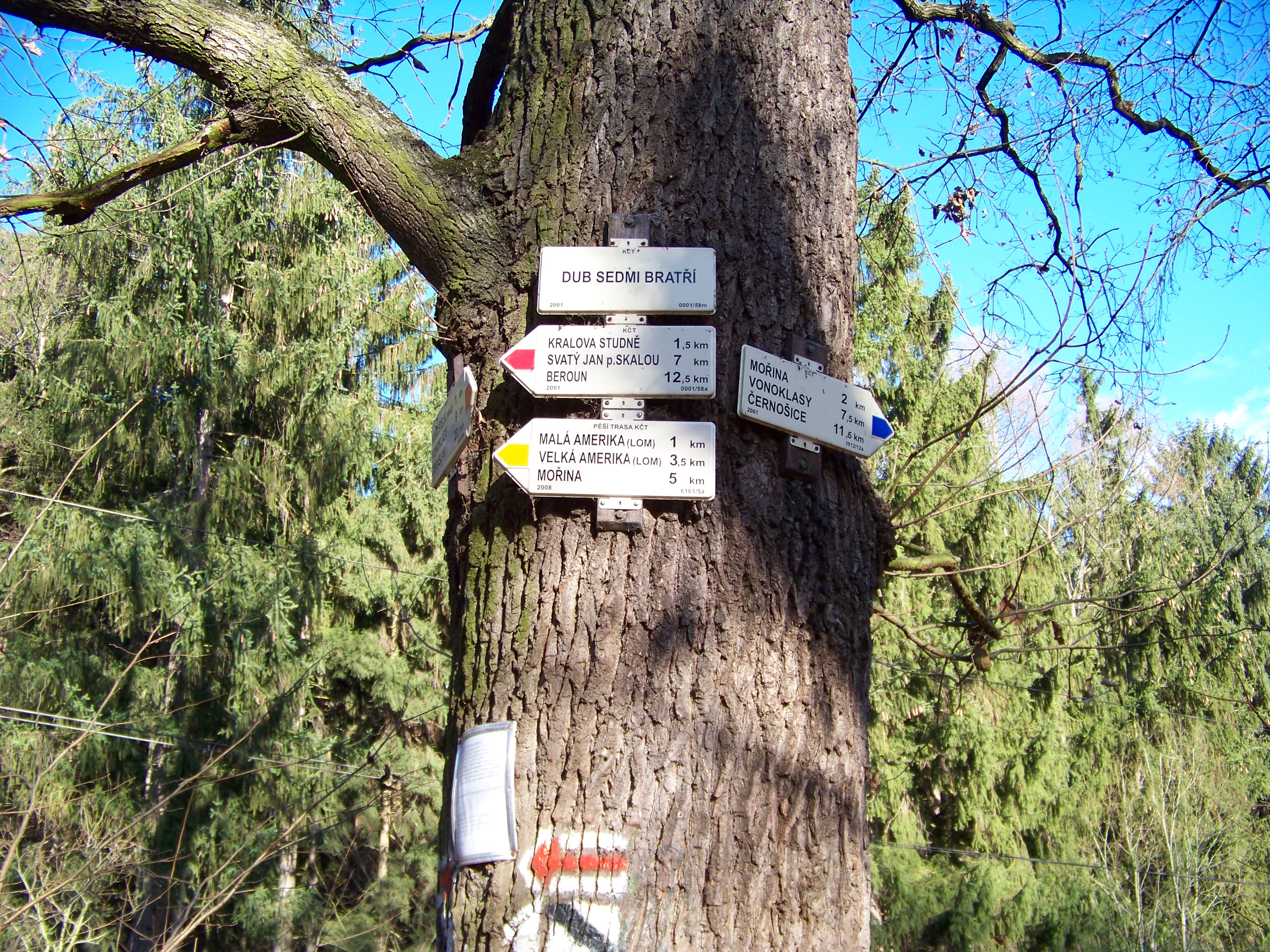 Karlštejn-Budňany, Beroun District, Central Bohemian Region, the Czech Republic. A hiking fingerpost.